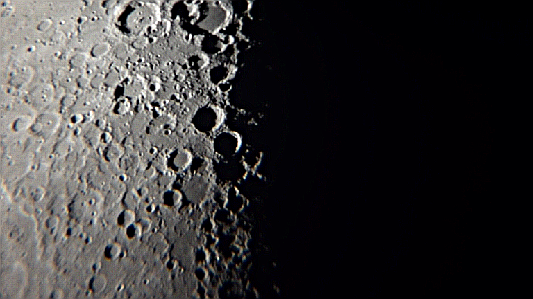 Taken using a Panasonic Lumix camera and a reflecting telescope from the UK by George Kristiansen.